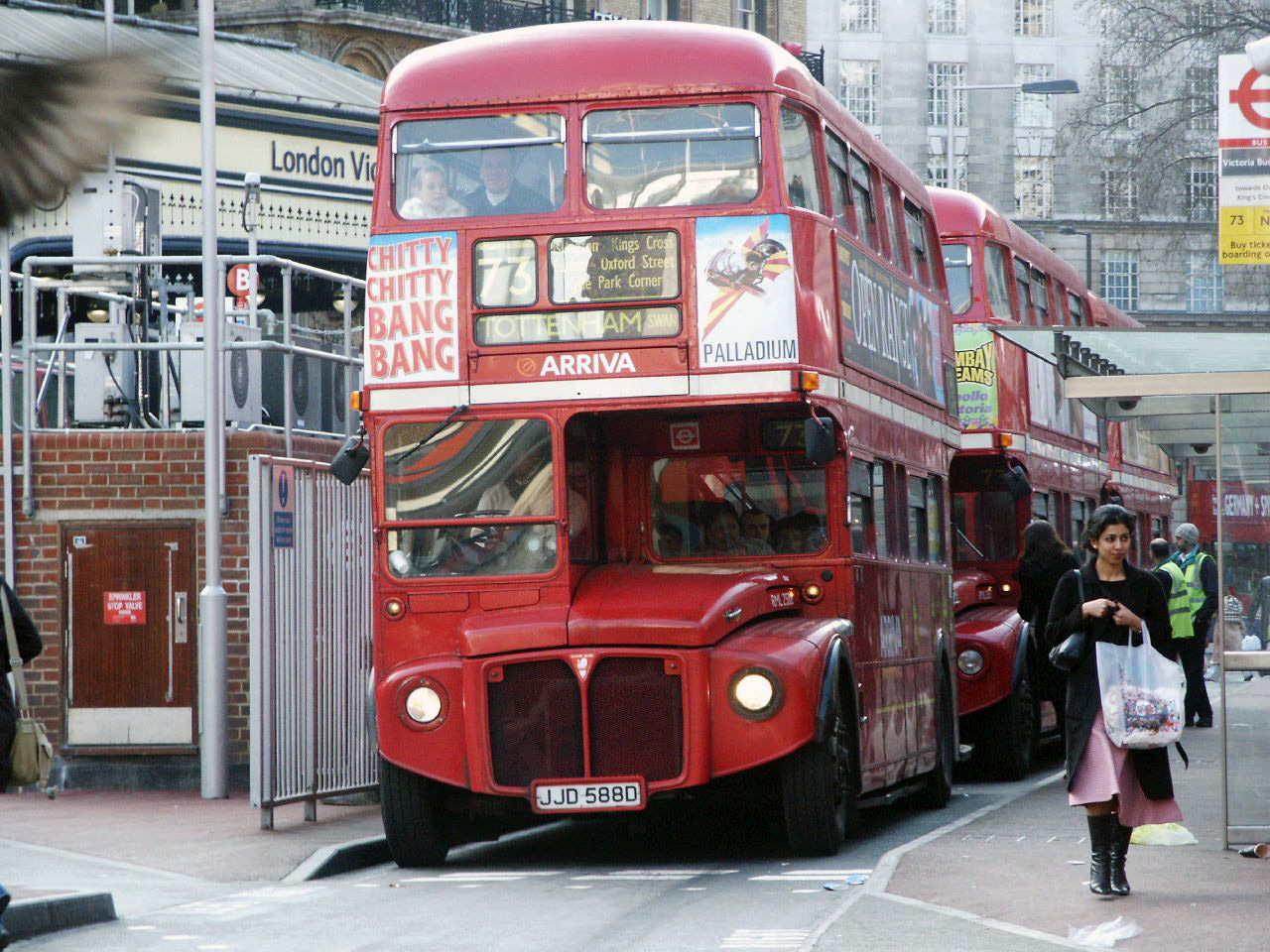 2588-JJD588D 060304 cps